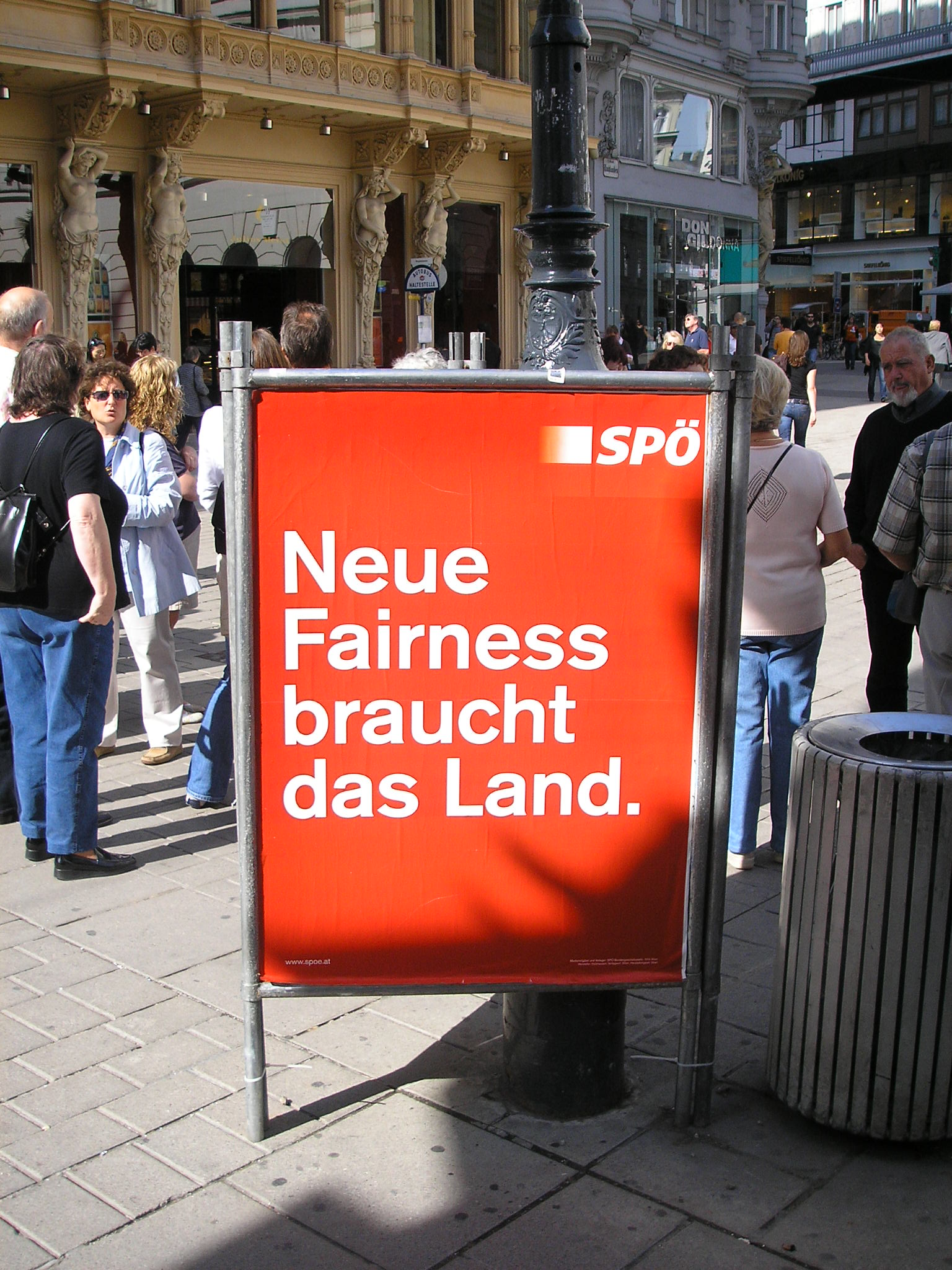 Image of an election poster of the social-democratic SPÖ party for the October 2006 elections to the Nationalrat (National Council) elections in Austria. Image taken in Vienna.